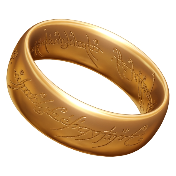 A 3D model of the One Ring